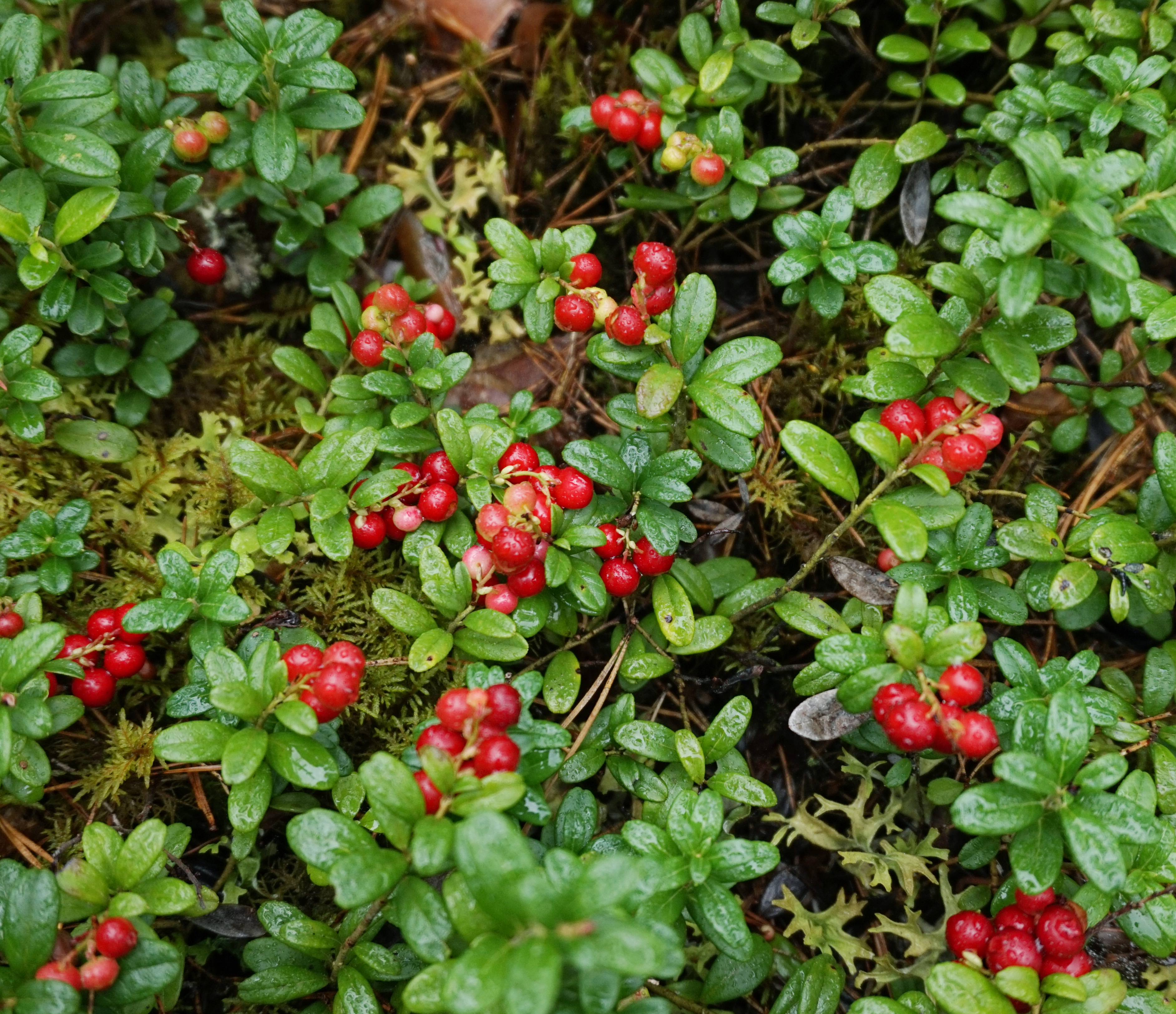 Lingonberries in Padasjoki, Finland.This photograph was taken with a Sony ILCE-5000